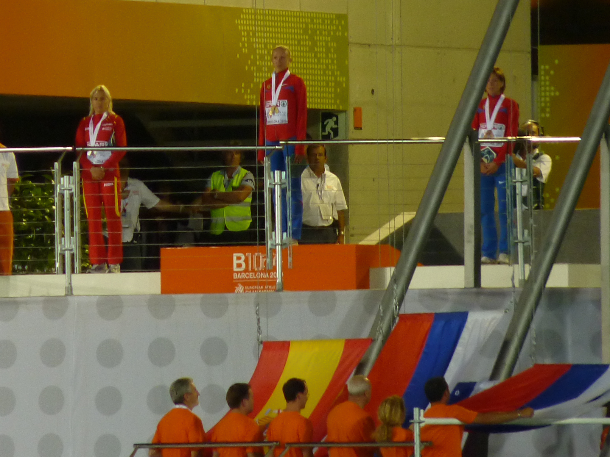 2010 European Championships in Athletics - medal ceremony, 3000 metres steeplechase for women. Yuliya Zarudneva gold, Marta Domínguez silver, Lyubov Kharlamova bronze.